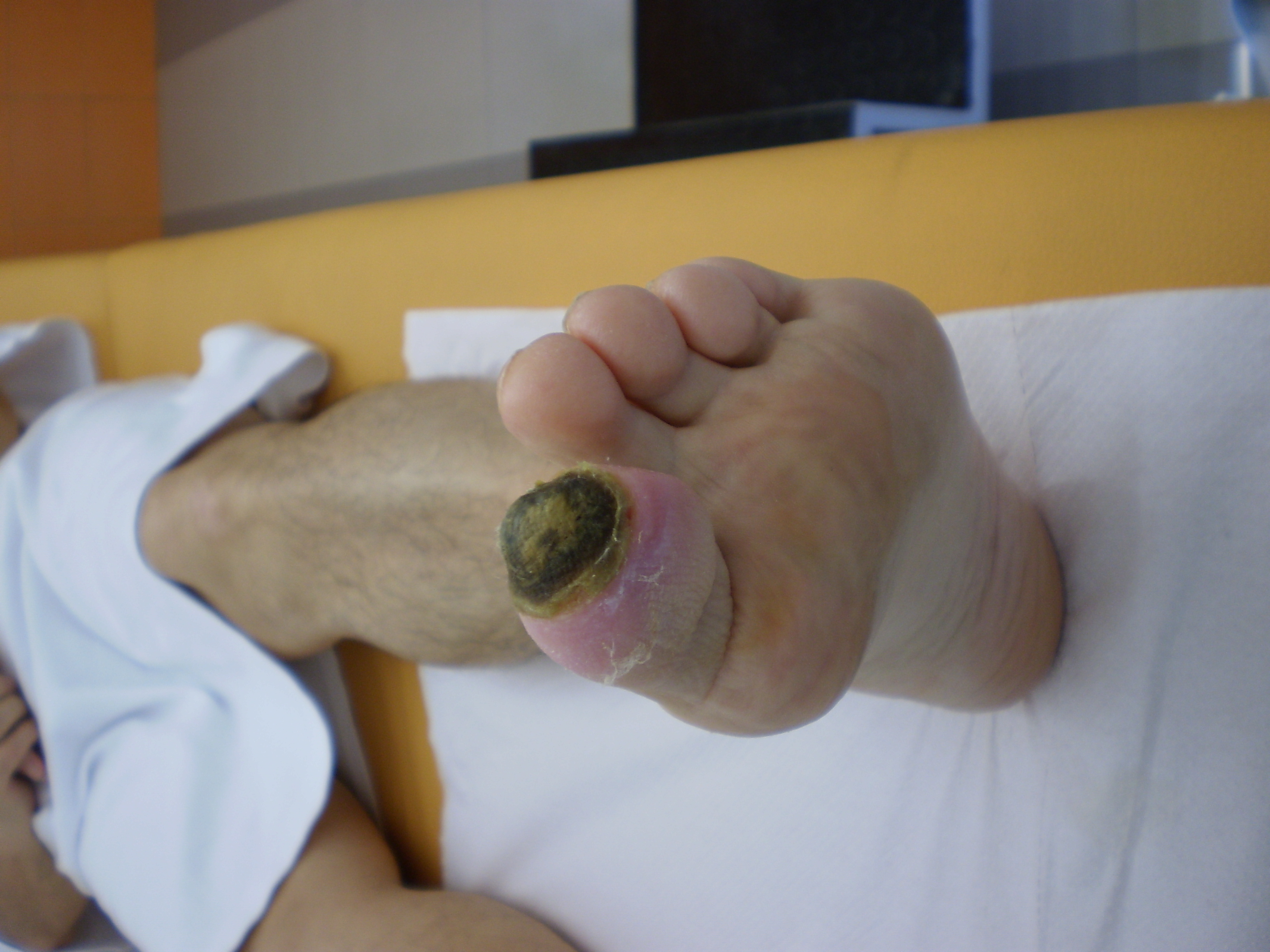 Diabetic foot syndrome